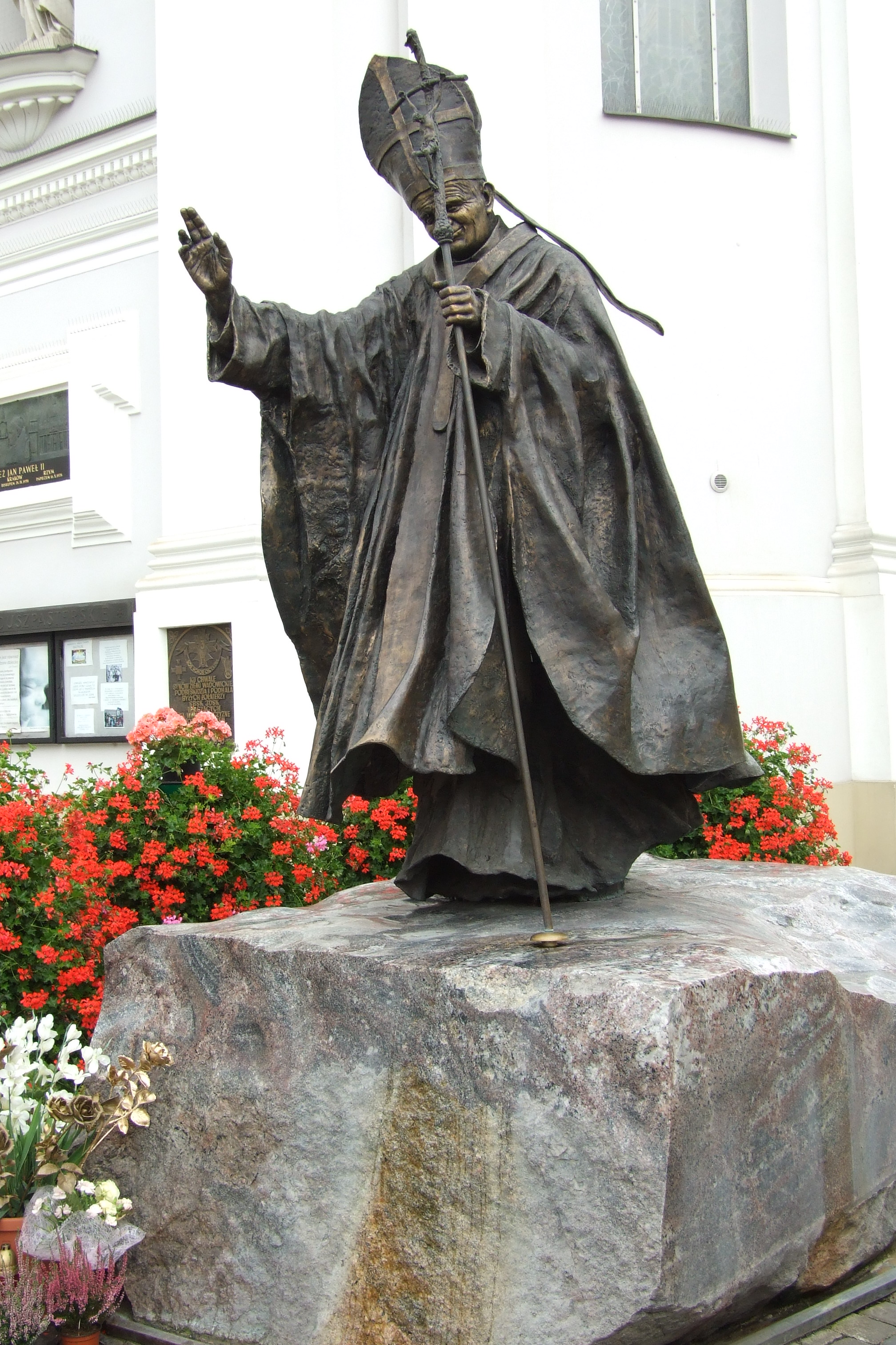 Basilica of the Presentation of the Blessed Virgin Mary in Wadowice